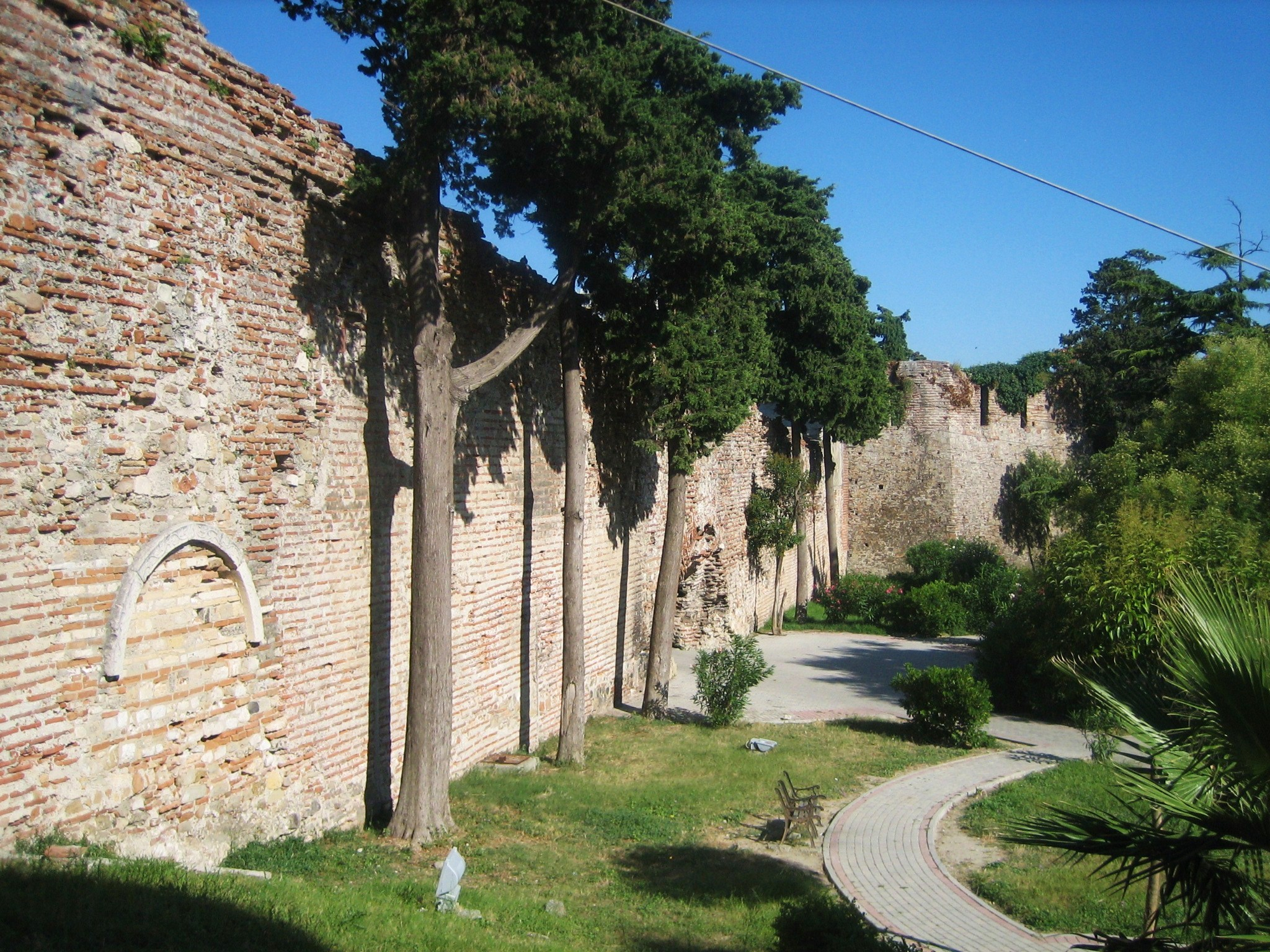 City wall of Durrës, Albania, near the Amphitheatre